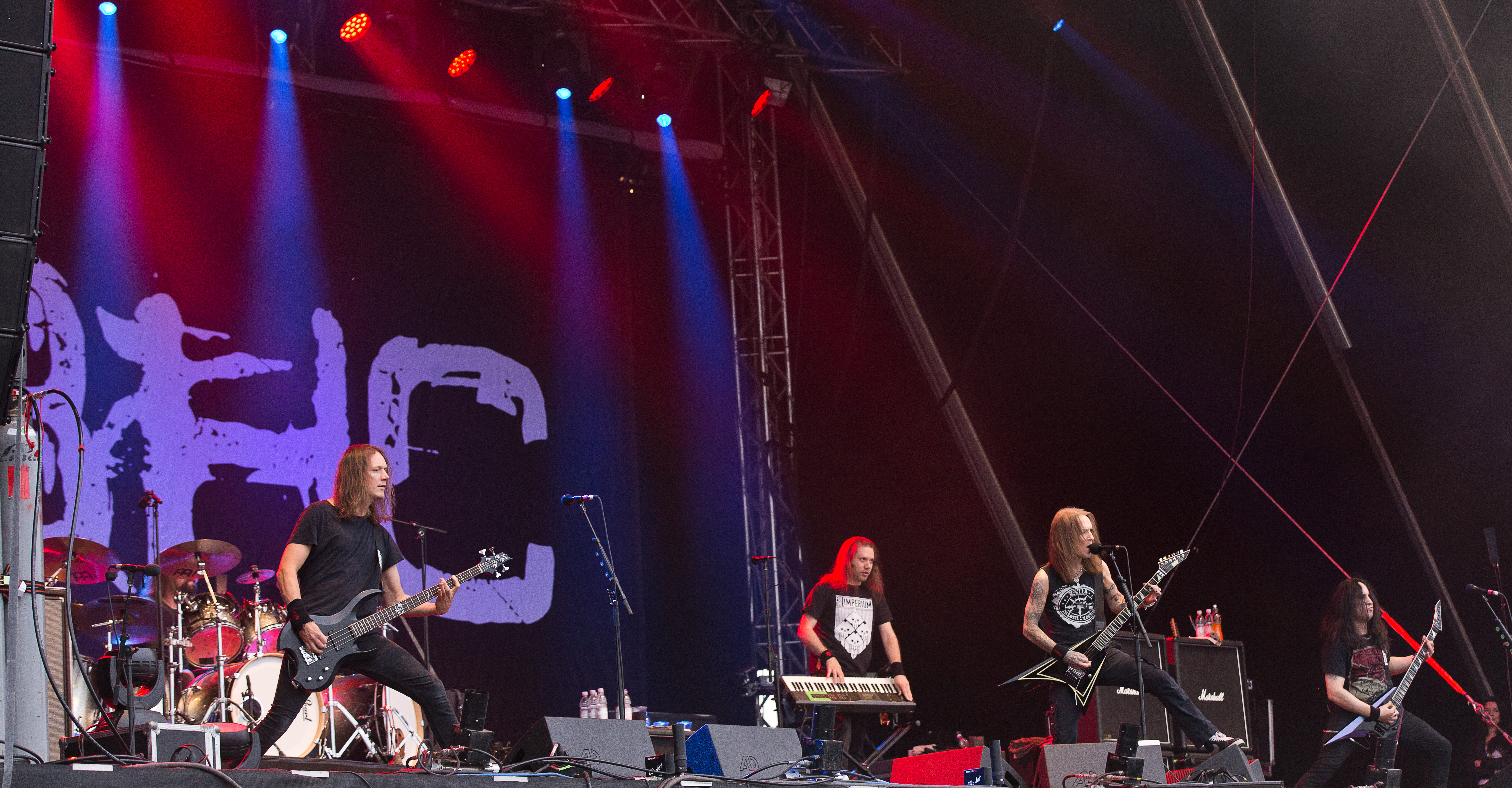 The Finnish melodic death metal band Children of Bodom at the Rockharz Open Air 2016 in Ballenstedt/Germany.